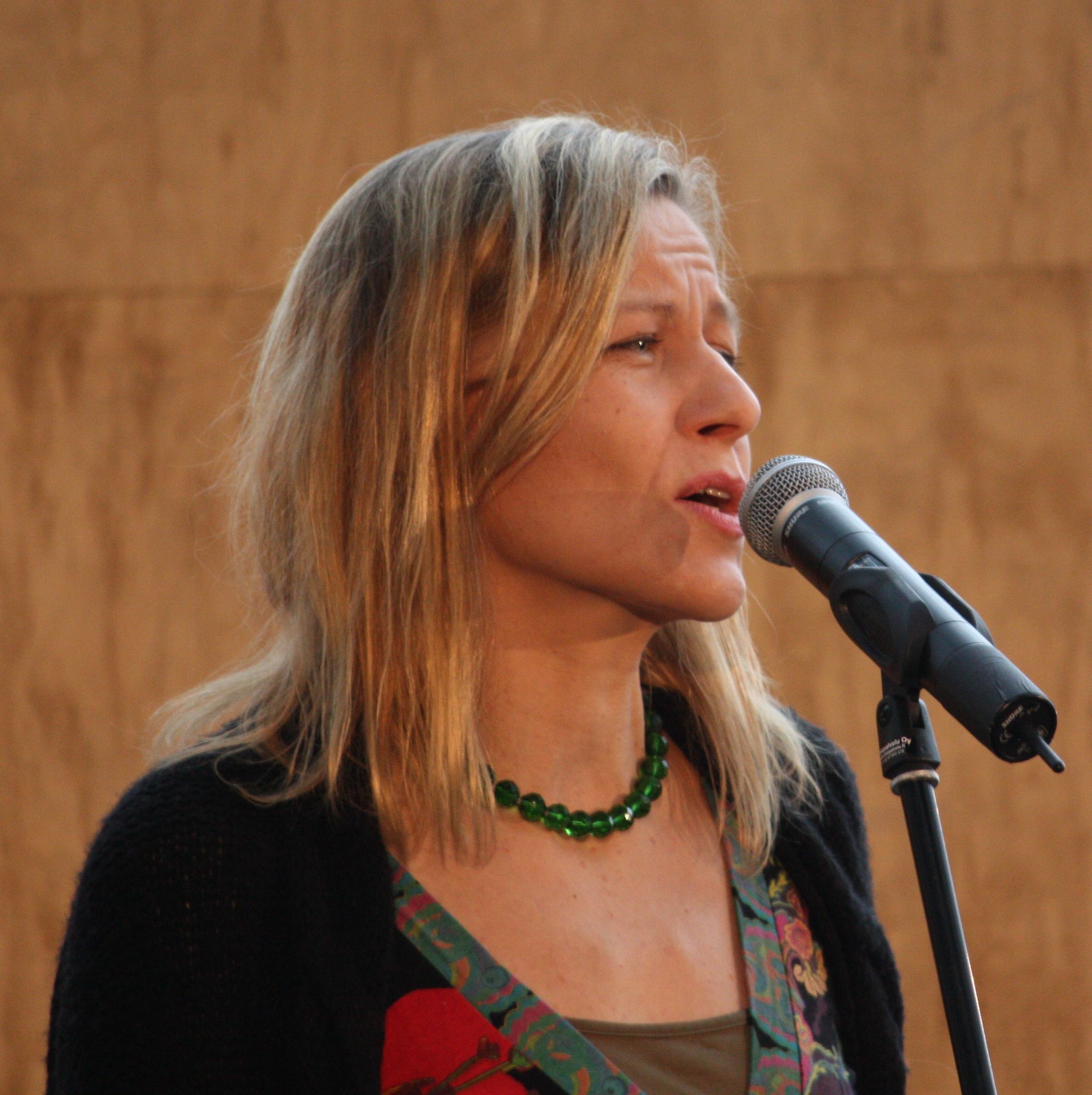 Finnish poet and vocalist Anja Erämaja performing on The Day of Aleksis Kivi and Finnish Literature at Mediatori in Helsinki.